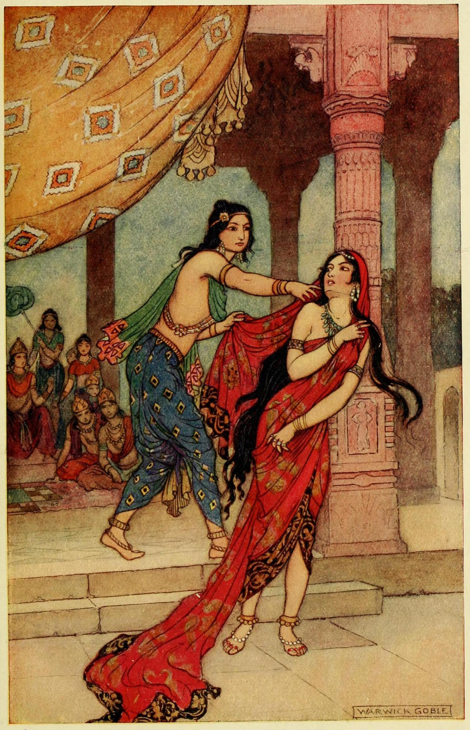 Author: Mackenzie, Donald Alexander, 1873-1936; Goble, Warwick Subject: Mythology, Hindu; Legends Publisher: London : Gresham Language: English Digitizing sponsor: Boston Library Consortium Member Libraries Book contributor: University of Connecticut Libraries Collection: uconn_libraries; blc; americana Full catalog record: MARCXML [Open Library icon]This book has an editable web page on Open Library.